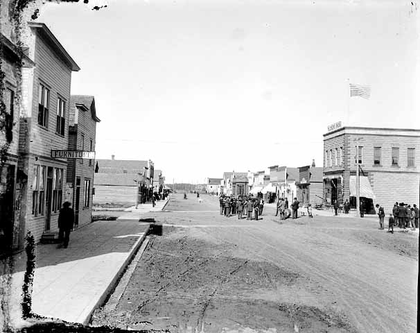 Roseau, Minnesota.